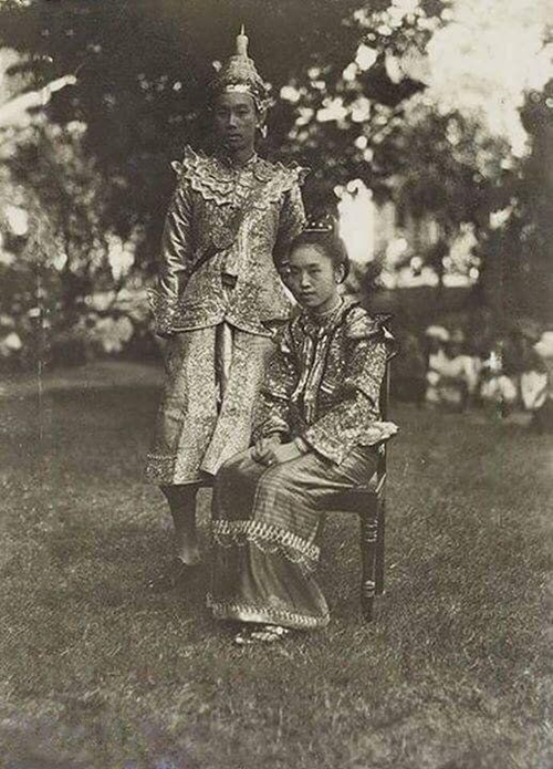 Prince Inthanon na Chiengmai and Princess Sukhantha of Kengtung wedding, 1933.